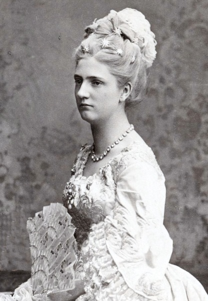 Marie Antoinette, Archduchess of Austria-Tuscany (1858–1883), daughter of Ferdinand IV, Grand Duke of Tuscany and Princess Anna Maria of Saxony